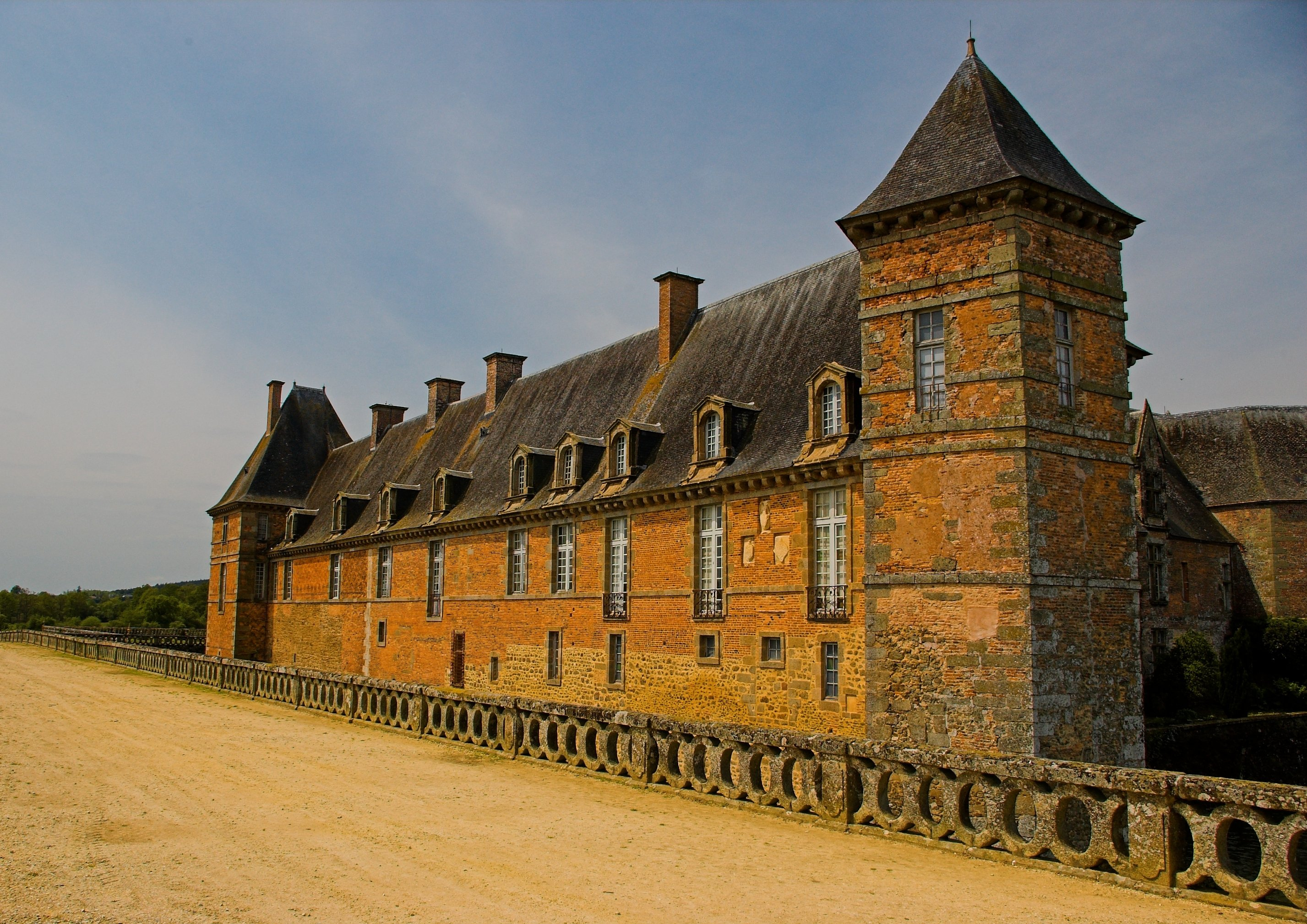 Carrouges castle (14th-17th century), Normandy, France.